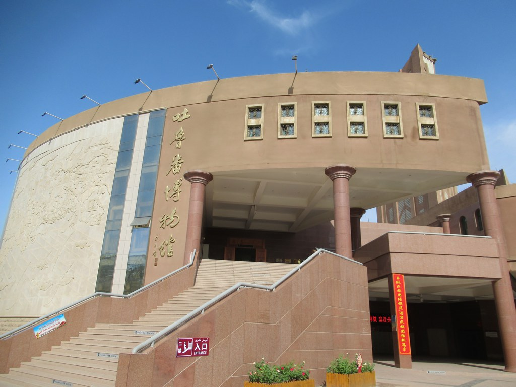 The Turpan Regional Museum in Turpan, Xinjiang, China, showcases archaeological artifacts from the surrounding area including mummies from the Astana Tombs.